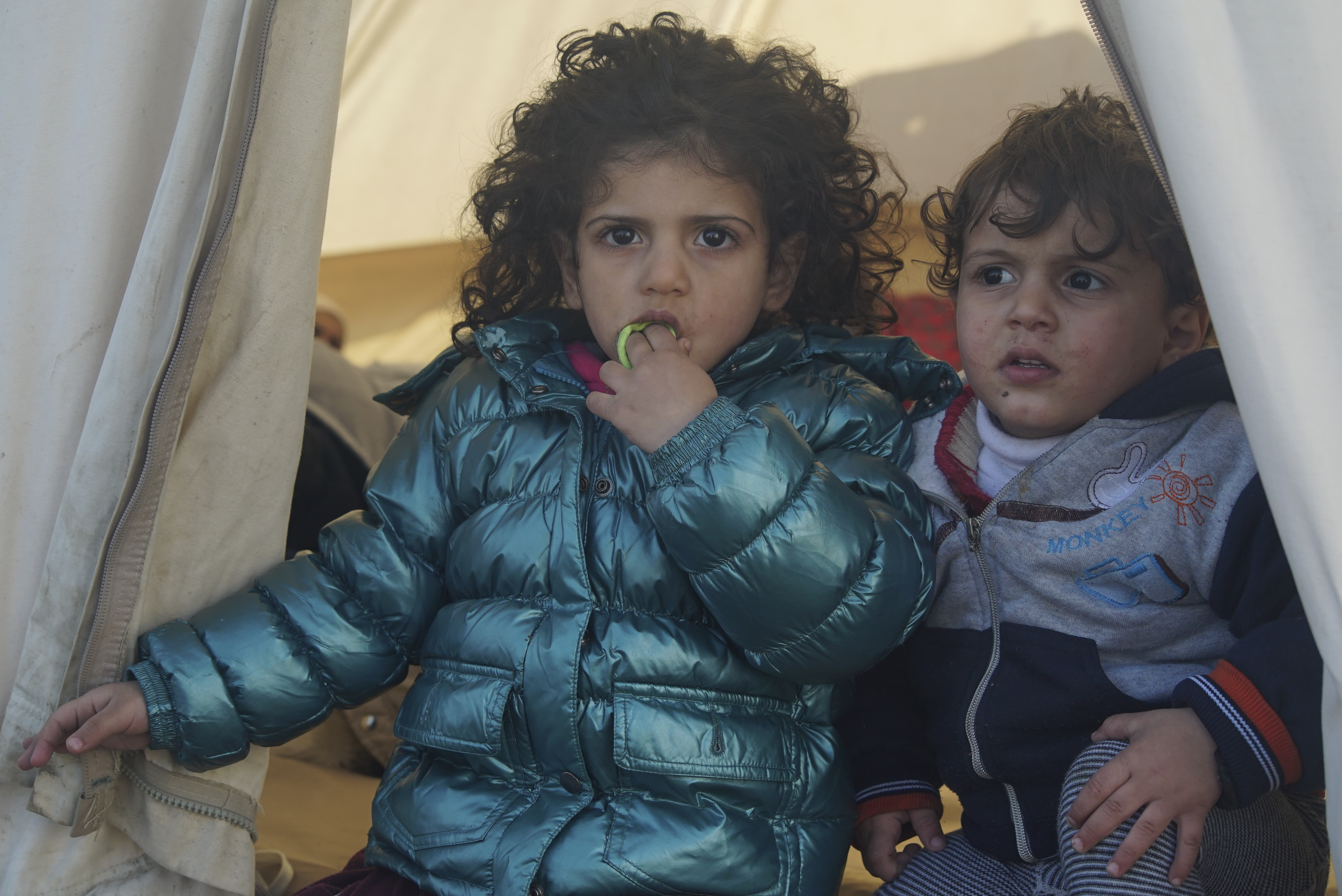 Underaged refugees in a camp located at the northeastern Greek island of Lesbos, 30 January 2016.